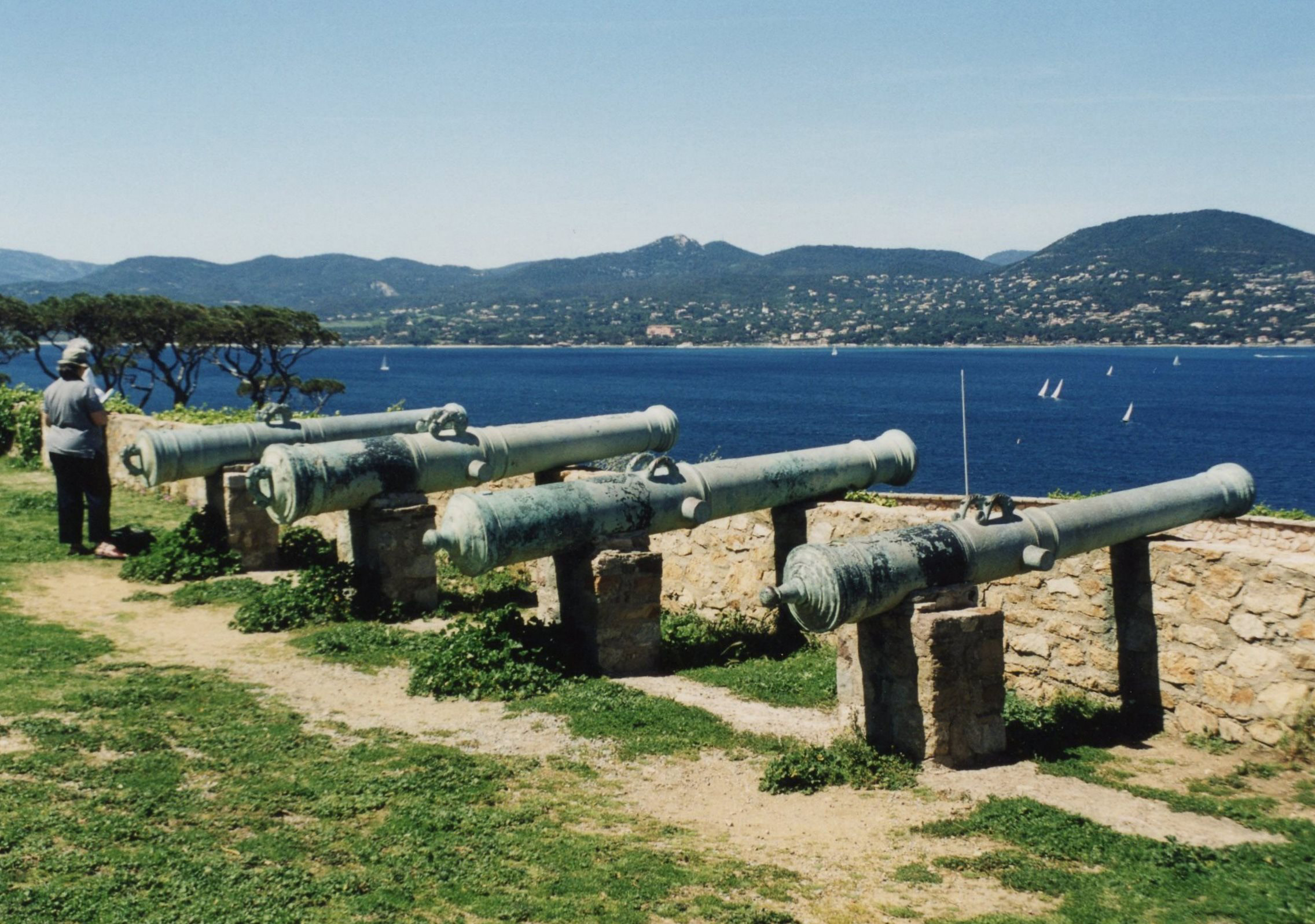 Cannons of the Saint-Tropez Citadel, Saint-Tropez, Var département, France